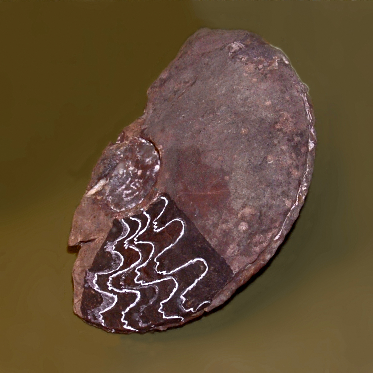 Fossil of Protrachyceras psaeudoarchelonus, on display at Museo Geologico G. Cappellini, Bologna